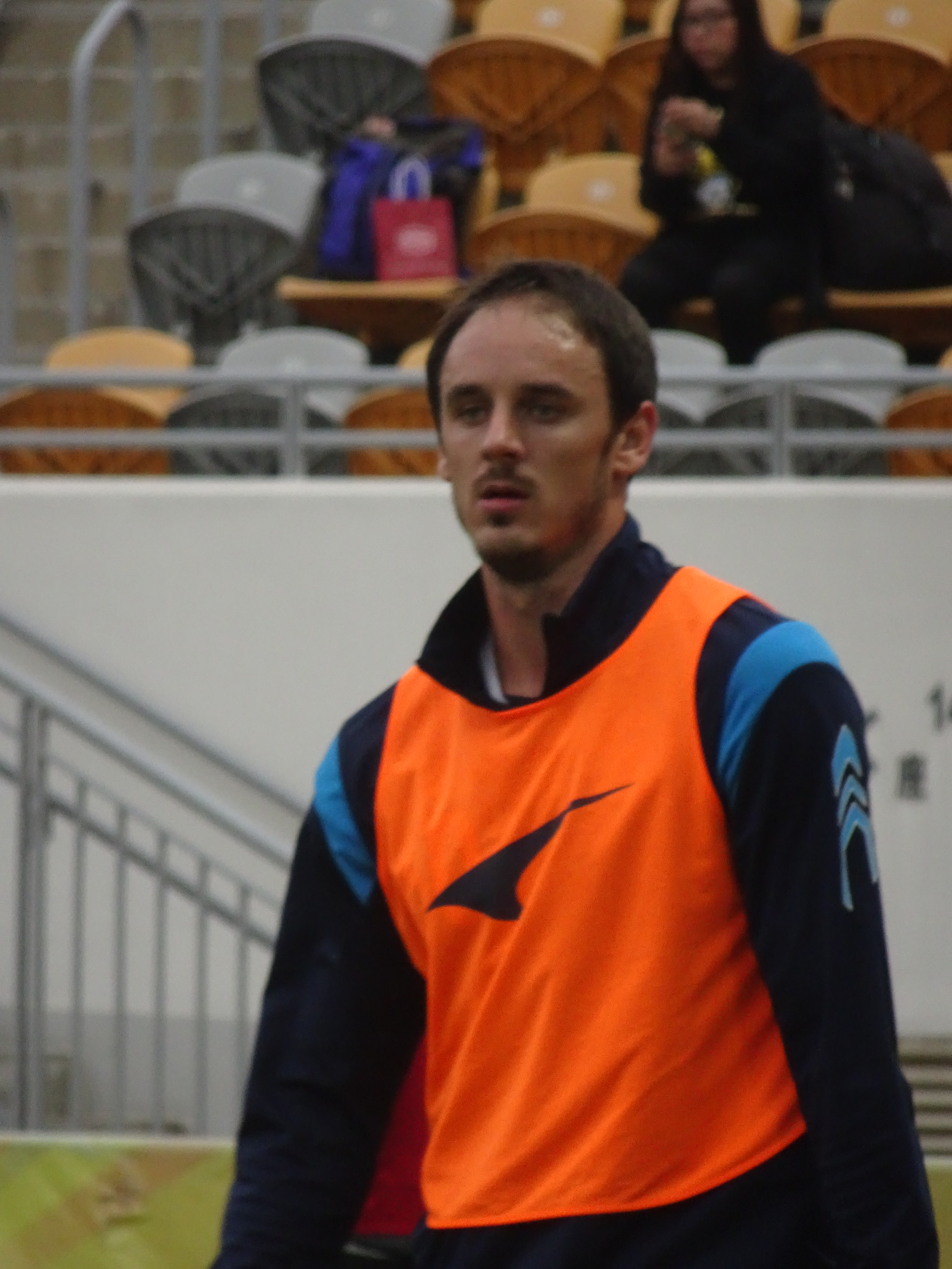 Saša Novaković (25 Dec 2018, Senior Shield, Tai Po vs R&F, Mong Kok Stadium)